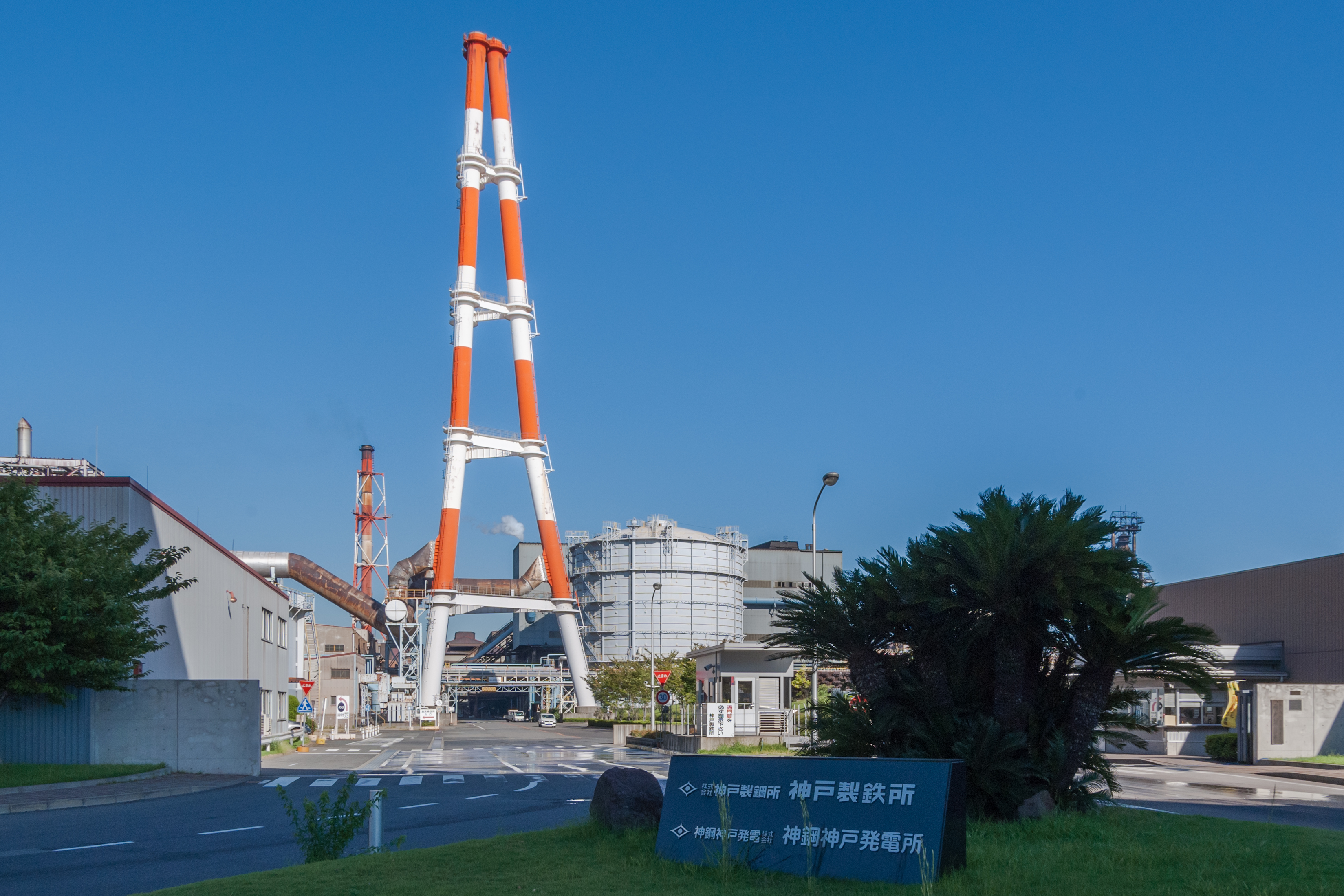 Photograph of the west gate of Kobe Works, Kobe Steel (Kobelco) in Nada-ku, Kobe, Hyogo Prefecture, Japan.